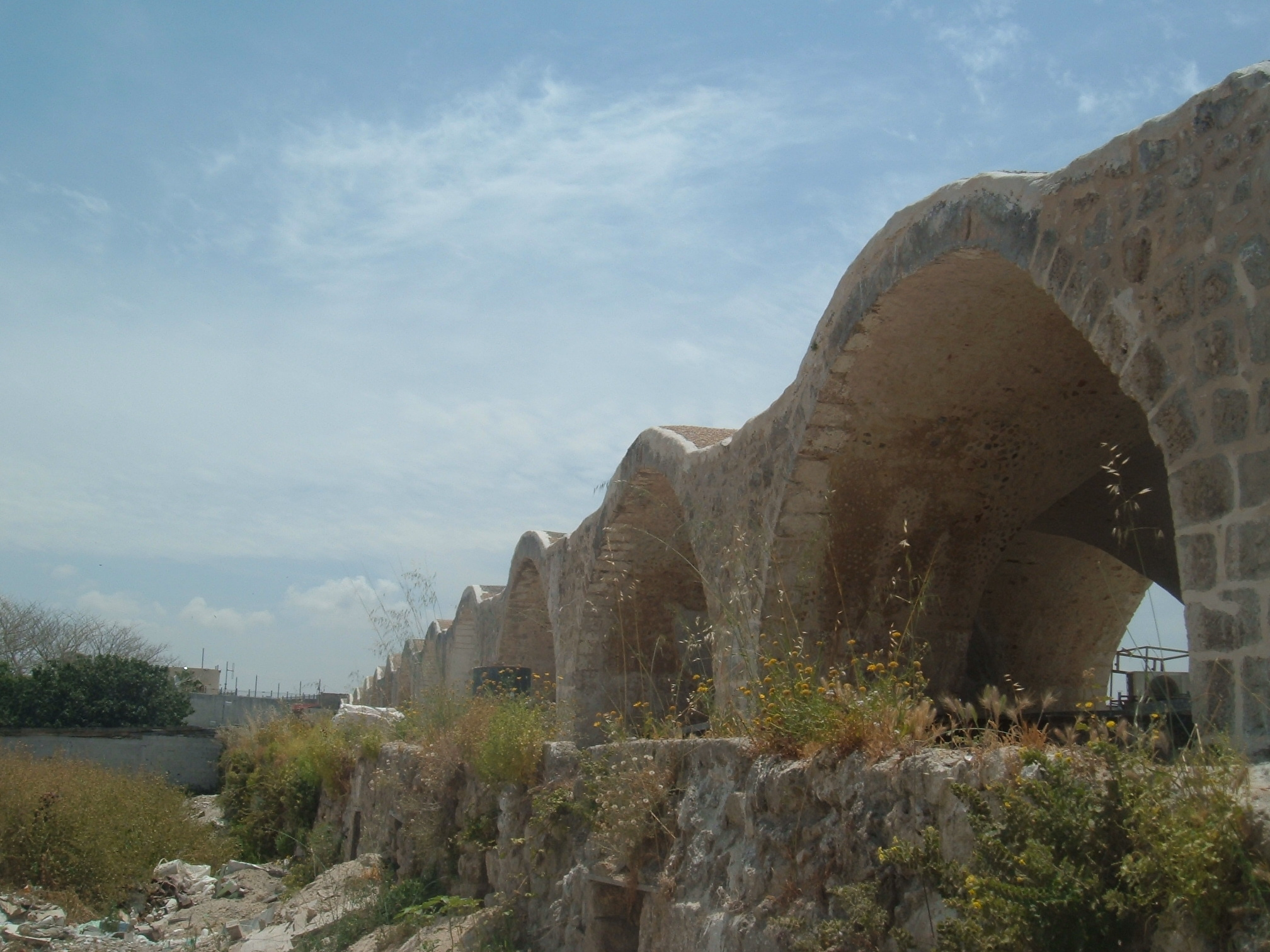 Arches of the white market in acre